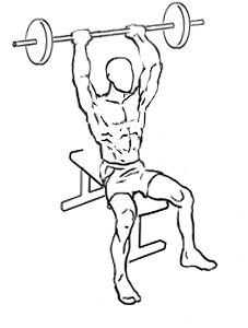 an exercise of triceps